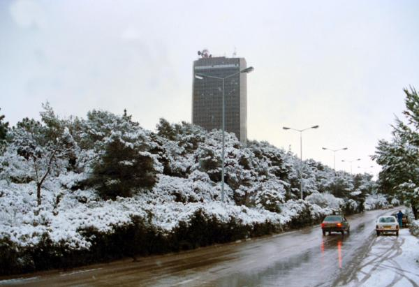 Snow in Abba Hushi boulevard and on Eshkol tower of the University of Haifa during the winter of 1992, Haifa, Israel.